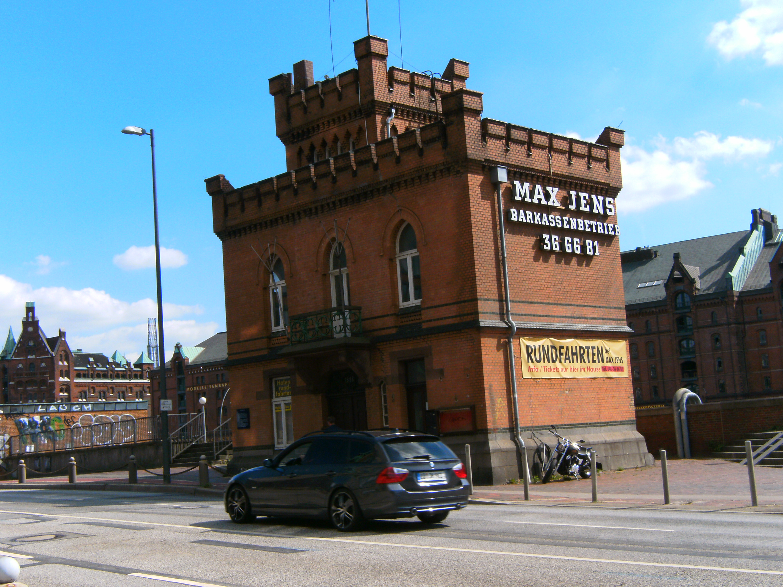 Hamburg, Germany, Hohe Brücke 2, Kranwärterhaus (crane drivers house).